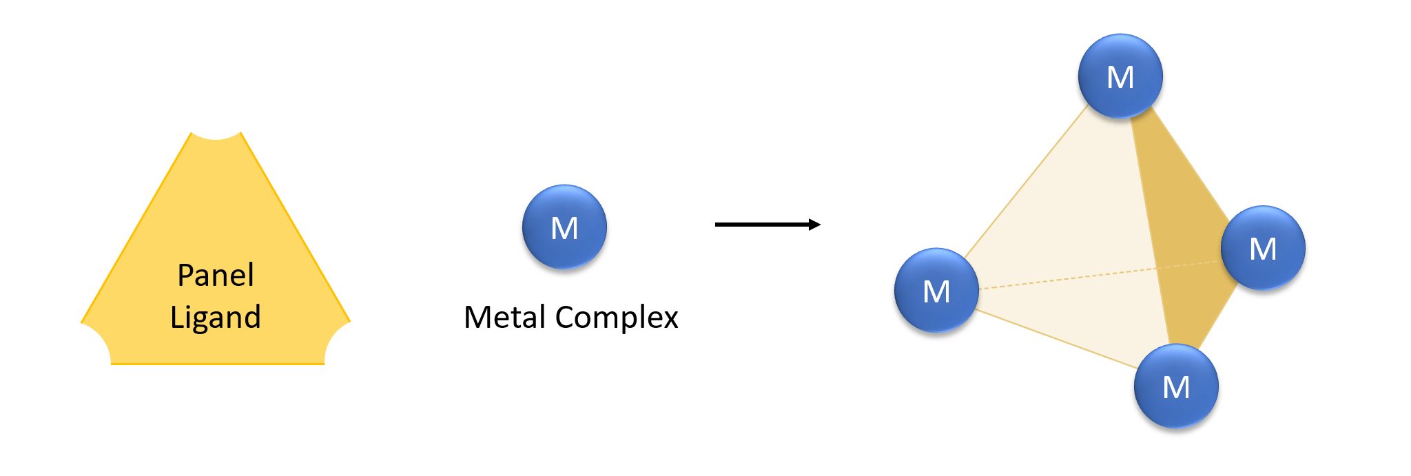 Molecular Paneling Method to make Coordination Cages